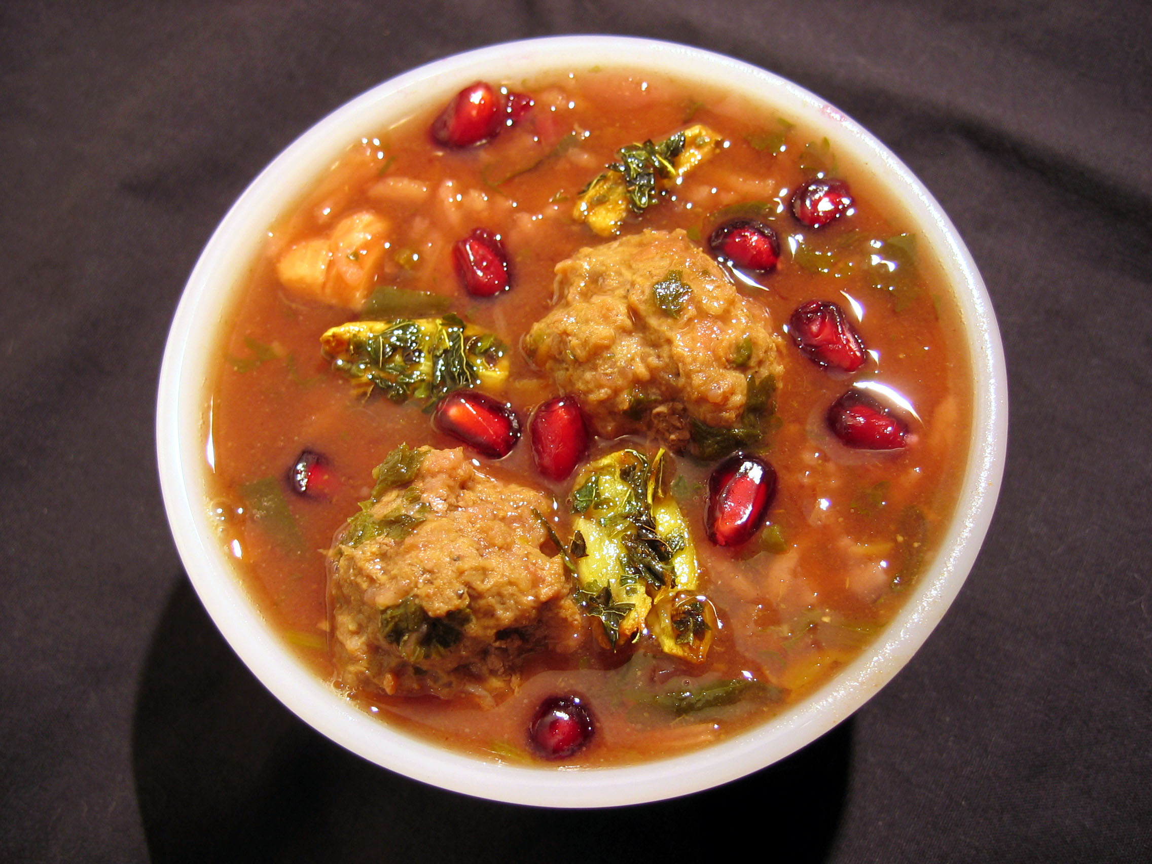 A bowl of ash-e anar (Persian pomegranate soup). Photo taken in the photographer's living room in her apartment in Park Slope, Brooklyn, New York, using a Canon PowerShot S400 camera.Persian Pomegranate Soup